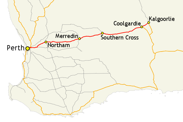 Map of Great Eastern Highway (shown in red) and surrounding road network in south-west Western Australia.